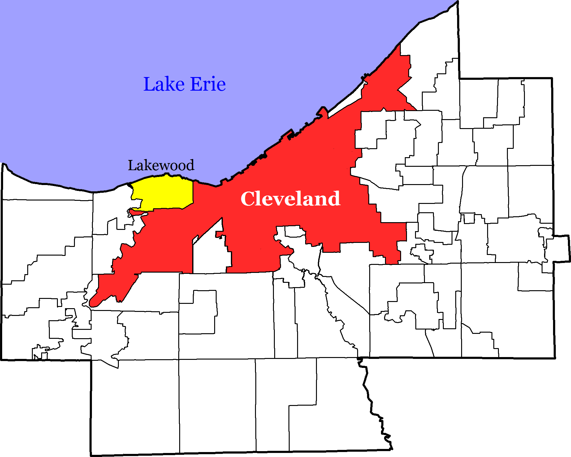 Area of cities of Cleveland and Lakewood, Ohio, United States.